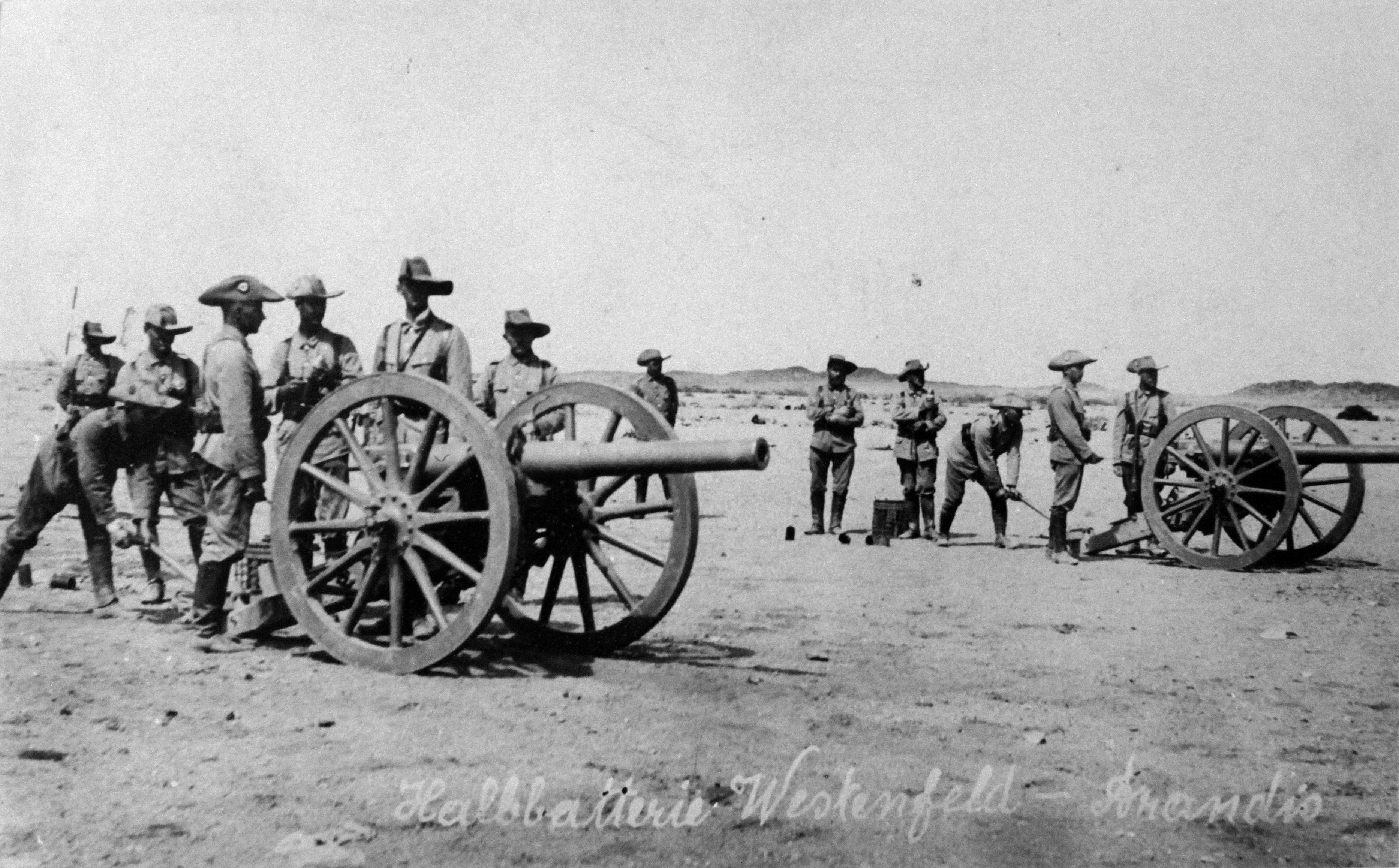 German Guns (half battery "Westenfeld" at Arandis) in action during First World War in German Southwest Africa (today Namibia), 1914-1915. Comment : gun appears to be a 7 cm MOUNTAIN GUN MODEL 98.